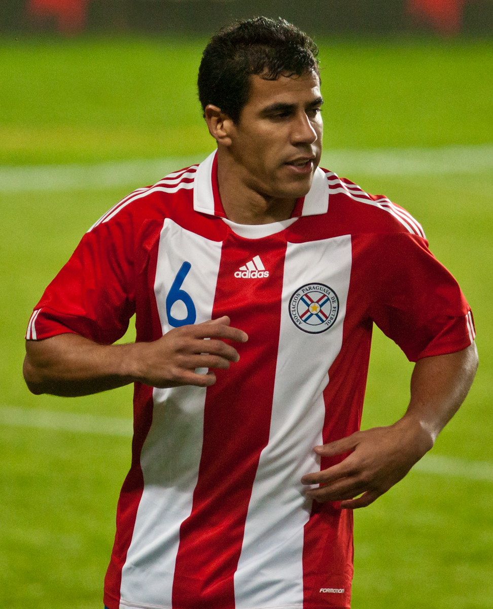 Carlos Bonet playing for the Paraguay national football team in a friendly match against Australia at the Sydney Football Stadium.